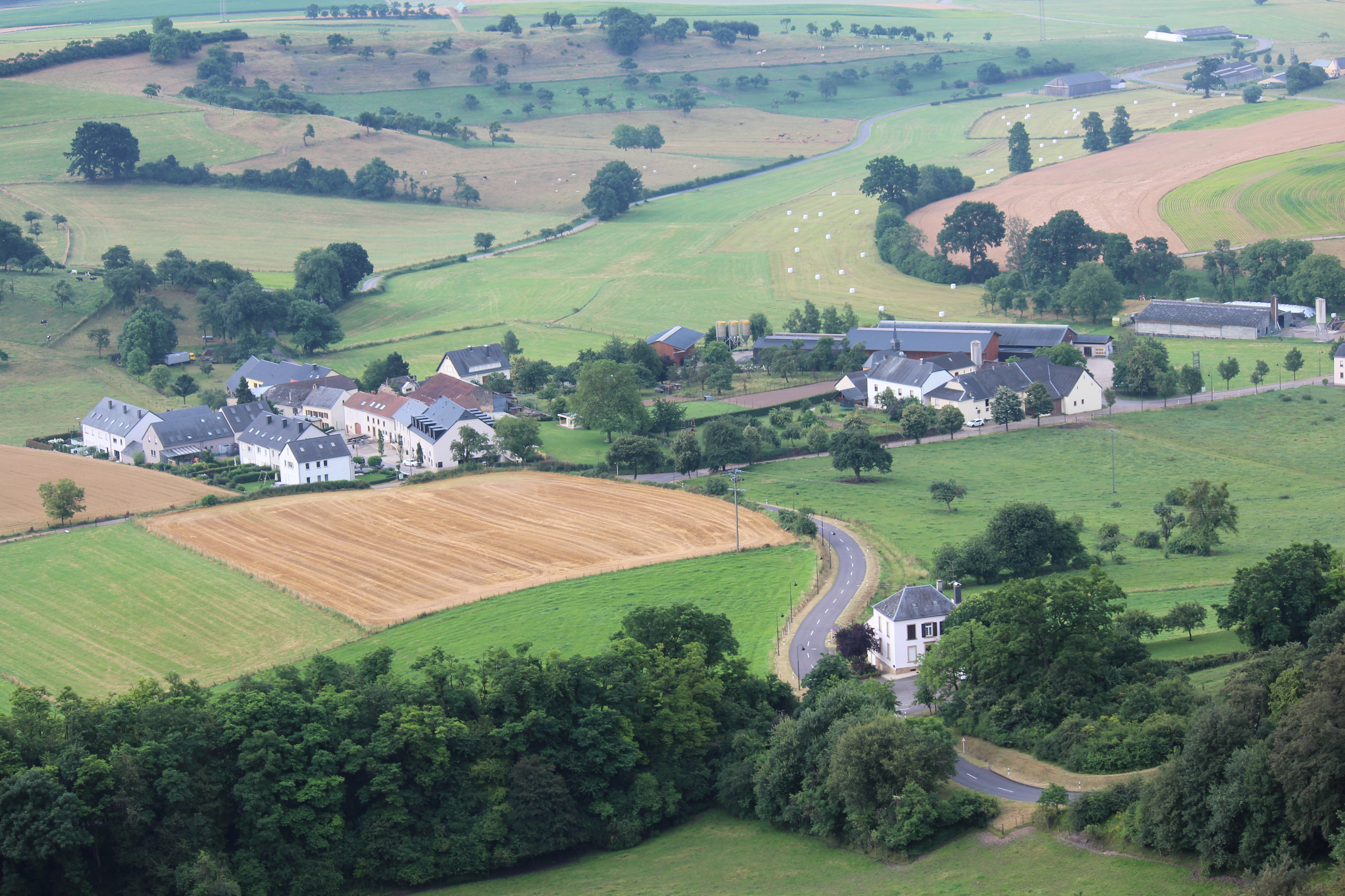 Zittig.